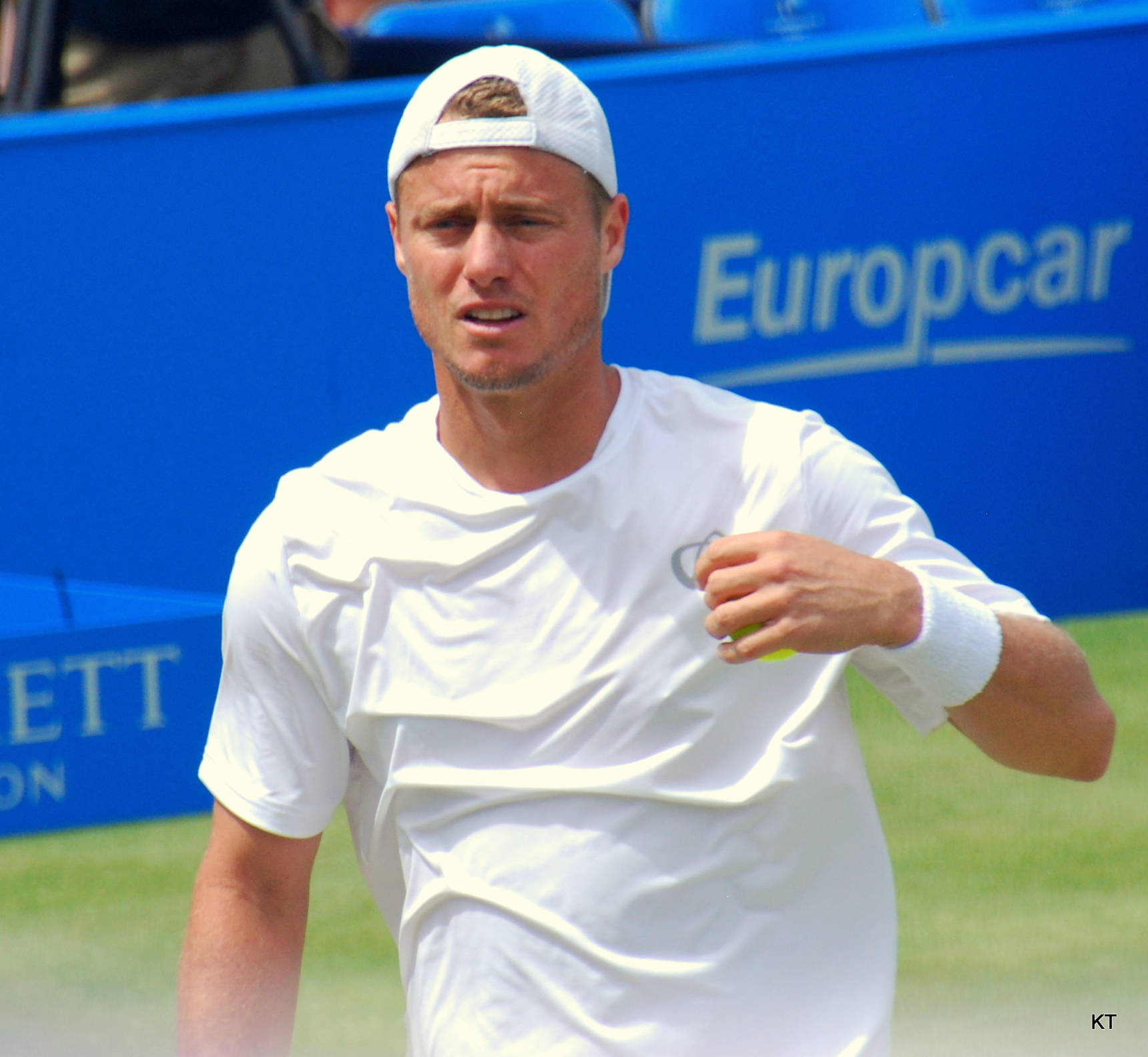 Lleyton Hewitt